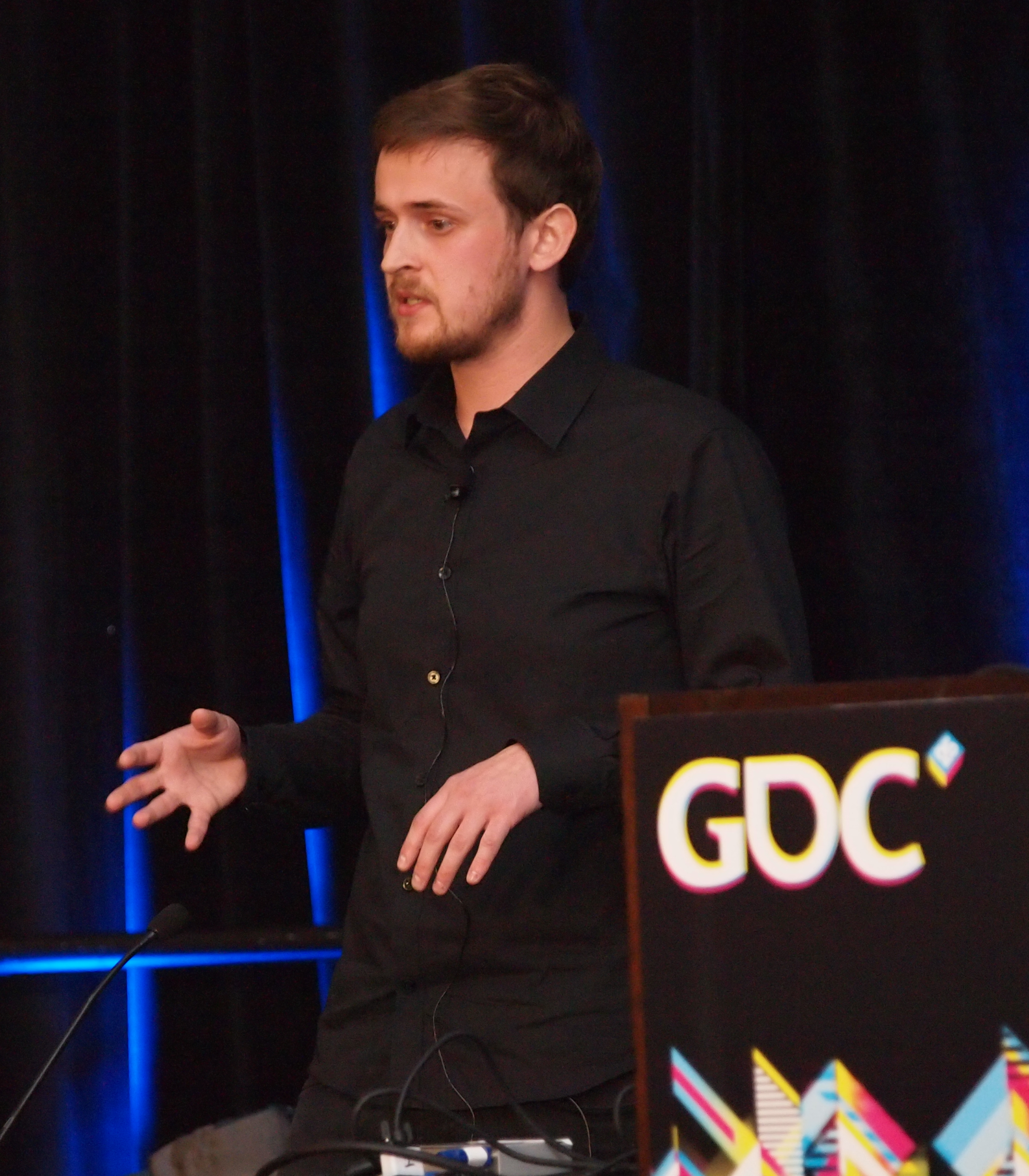 Jeppe Carlsen (Playdead) at the Game Developers Conference 2011, speaking at session "Designing LIMBO's Puzzles".